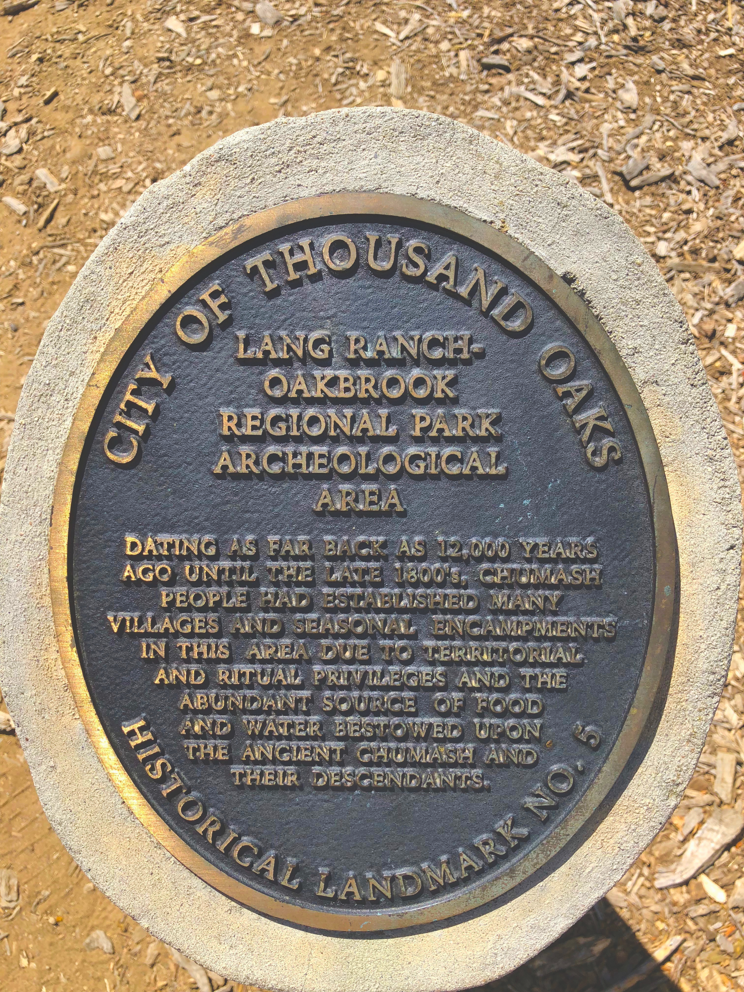 City of Thousand Oaks Landmark Plaque, Lang Ranch-Oakbrook Regional Park Archeological Area. At Chumash Indian Museum in Thousand Oaks, CA.